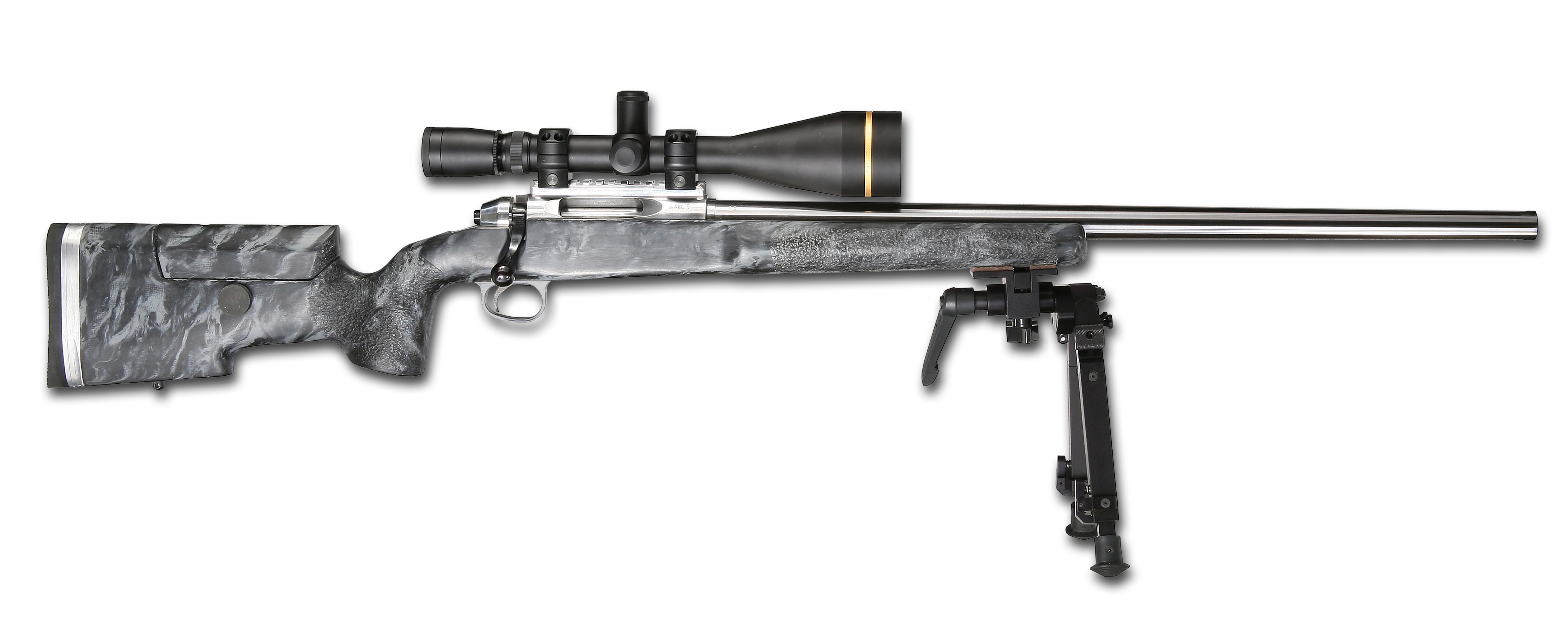 BCM Europearms fucile per competizioni F-Class Open